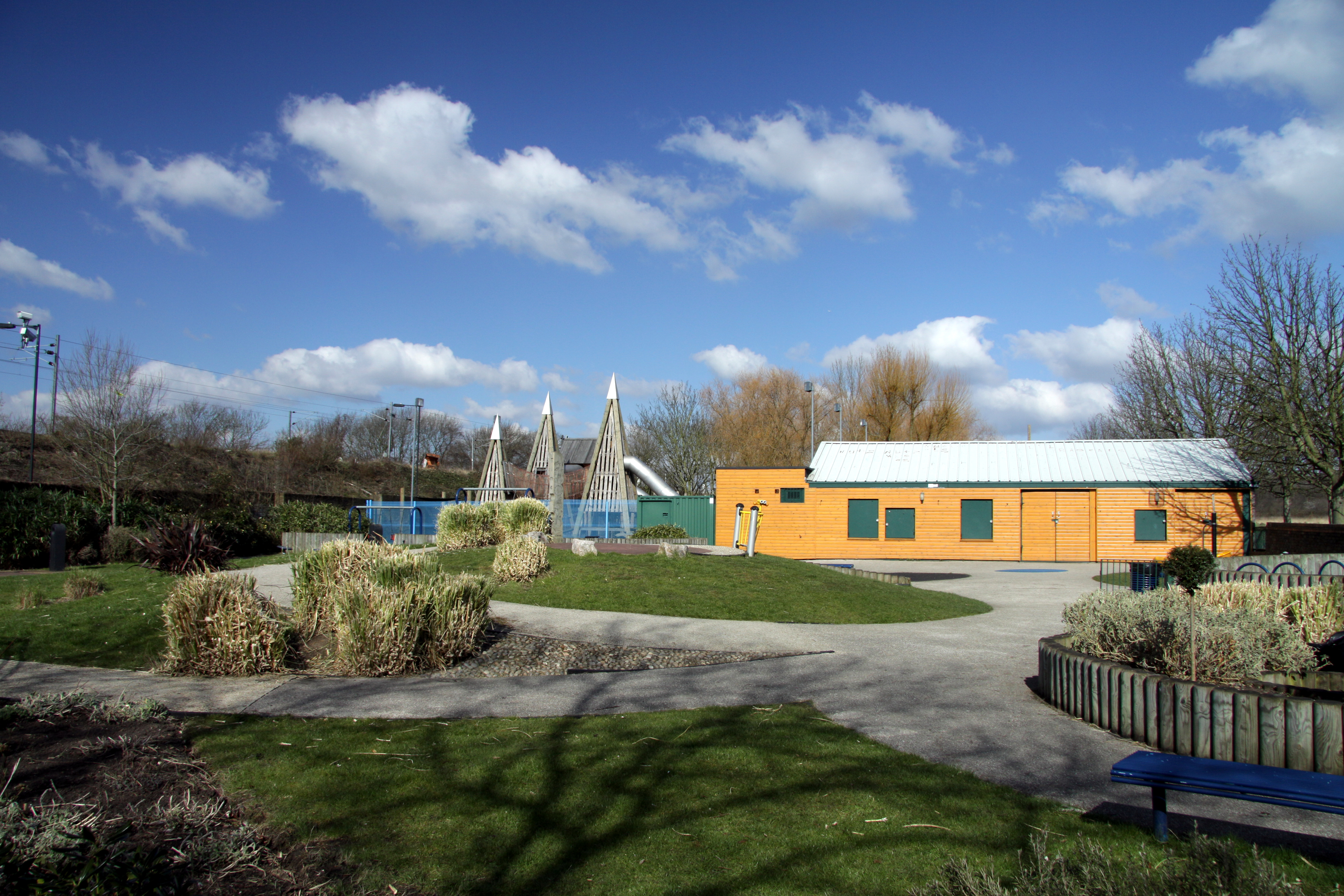 Park Little Wormwood Scrubs in London, England, Great Britain. - Google Maps - Google Earth